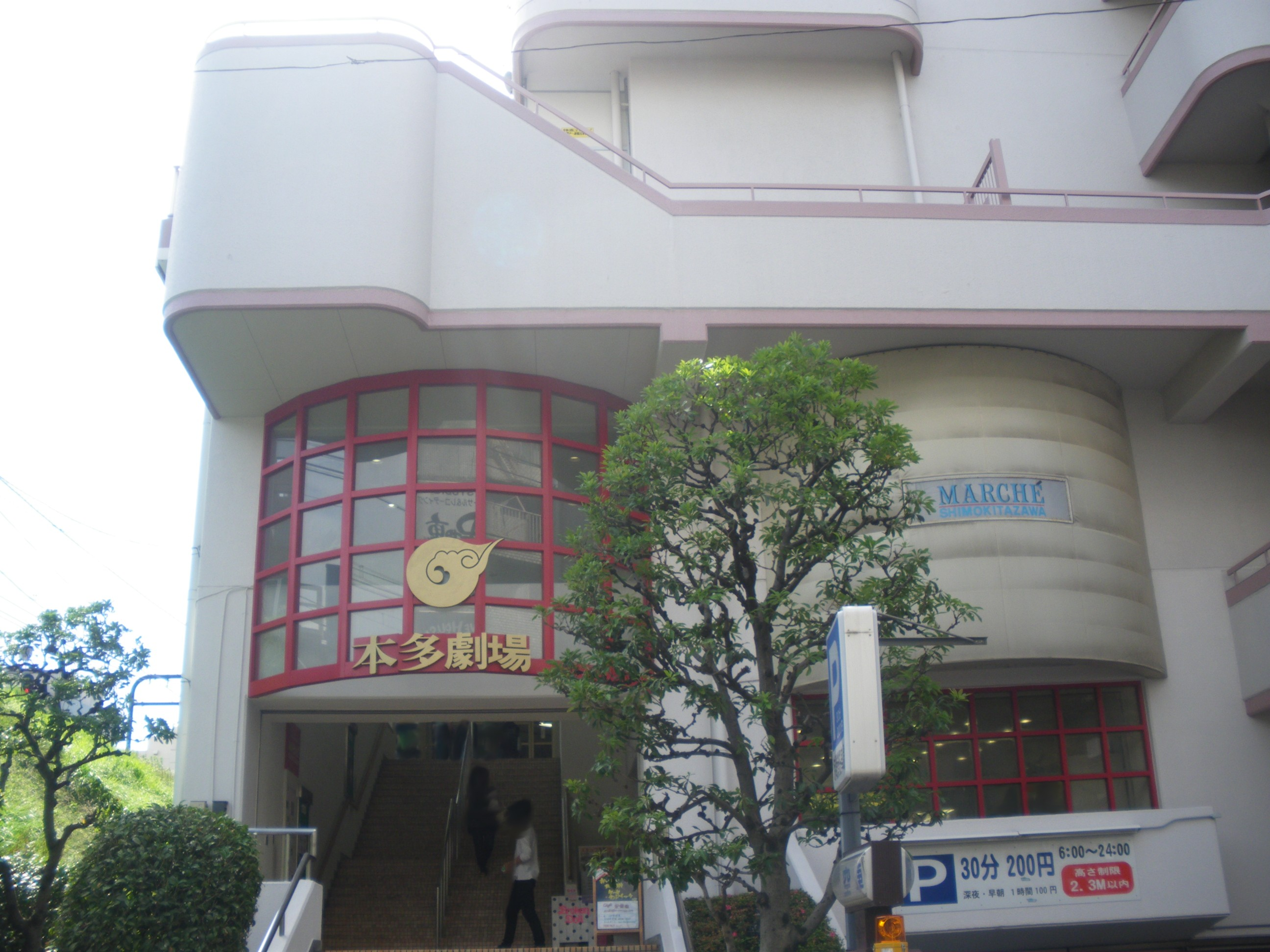 Honda Theater(Shimokitazawa,Setagaya,Tokyo)